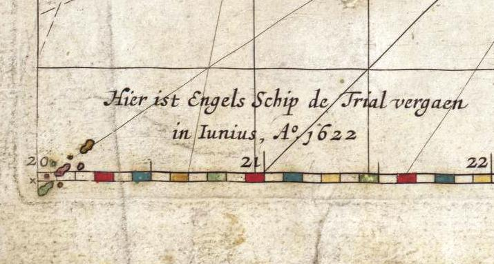 This is an image showing detail of the National Library of Australia's copy of Hessel Gerritsz' 1627 map of the north west coast of Australia entitled "Caert van't Landt van d'Eendracht". This detail showing a feature in the very bottom left corner of the map, labelled Hier ist Engels schip de Trial vergaen in Iunias, A° 1622 ("Here the English ship Trial was wrecked in June 1622"). This is the first known charting of the Tryal Rocks on a map.